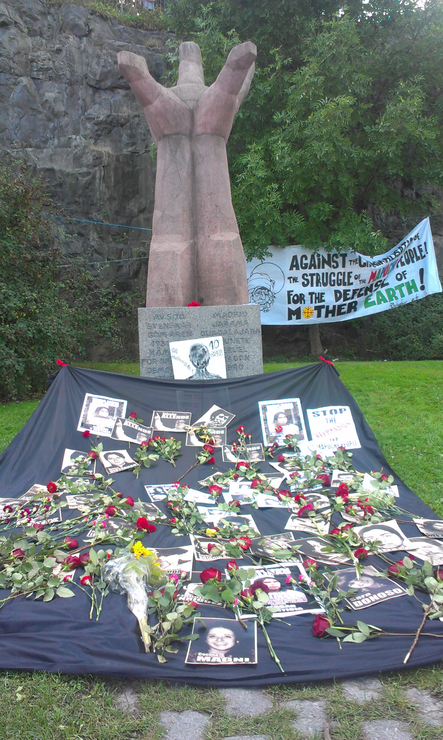 40-years after the military coup in Chile. A remembrance of the victims of the dictatorship. The pictures are murdered or disappeared persons. Stockholm 14 of September 2013